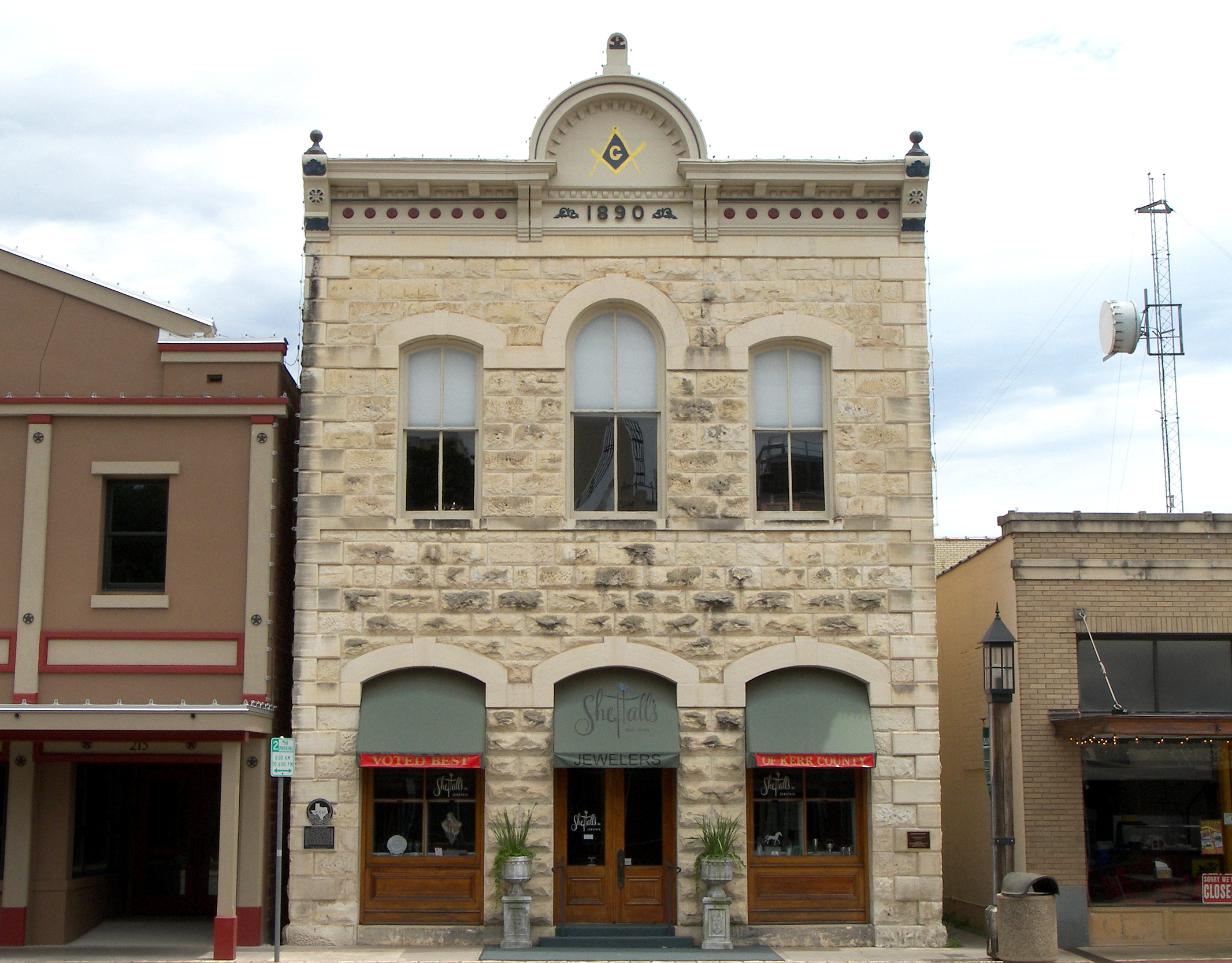 The Kerrville Masonic Building located at 211 Earl Garrett St, Kerrville, Texas, United States. The building was listed on the National Register of Historic Places on January 12, 1984 and designated a Recorded Texas Historic Landmark in 2008.